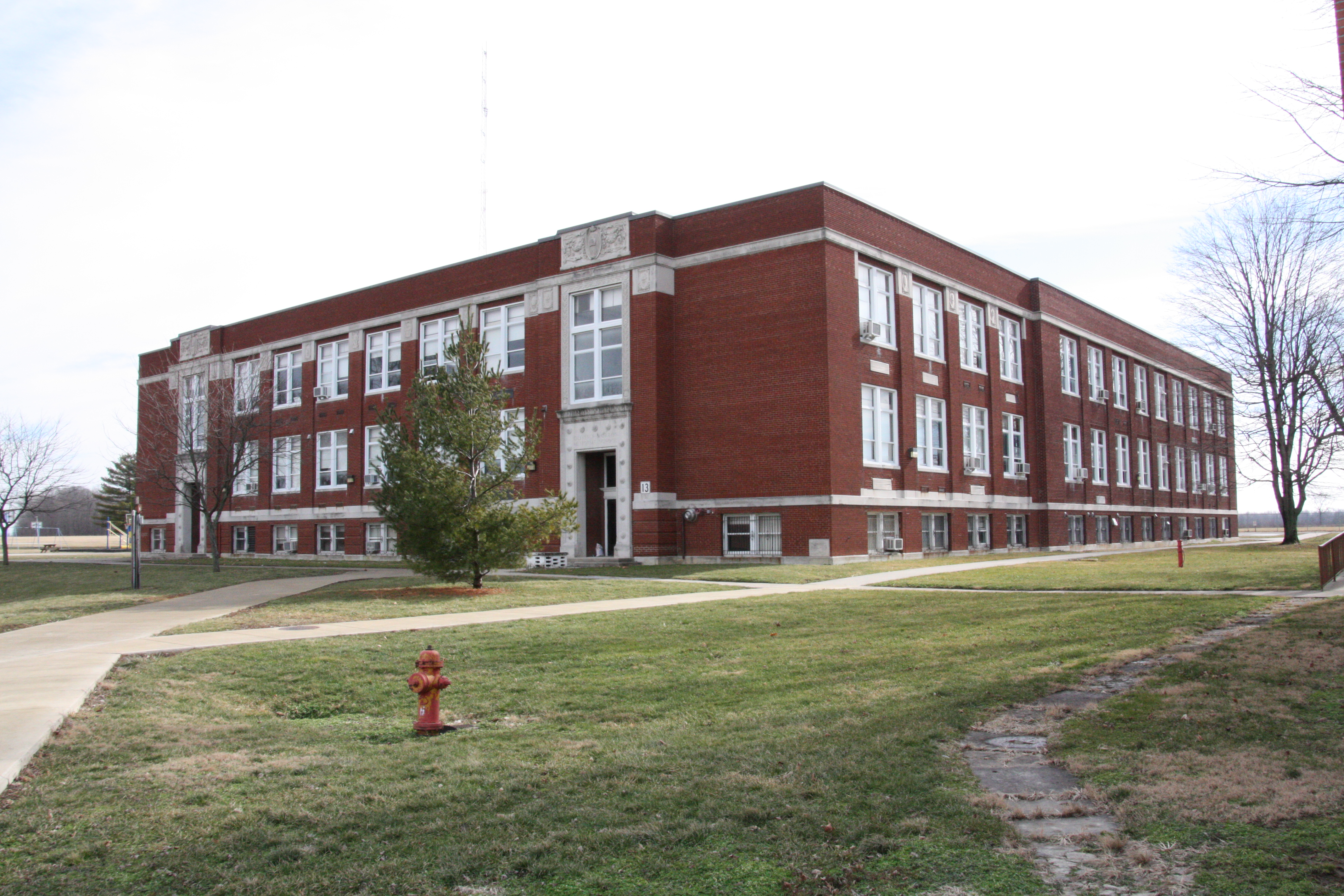 Morton School at the former Indiana Soldiers' and Sailors' Children's Home in Knightstown, Indiana